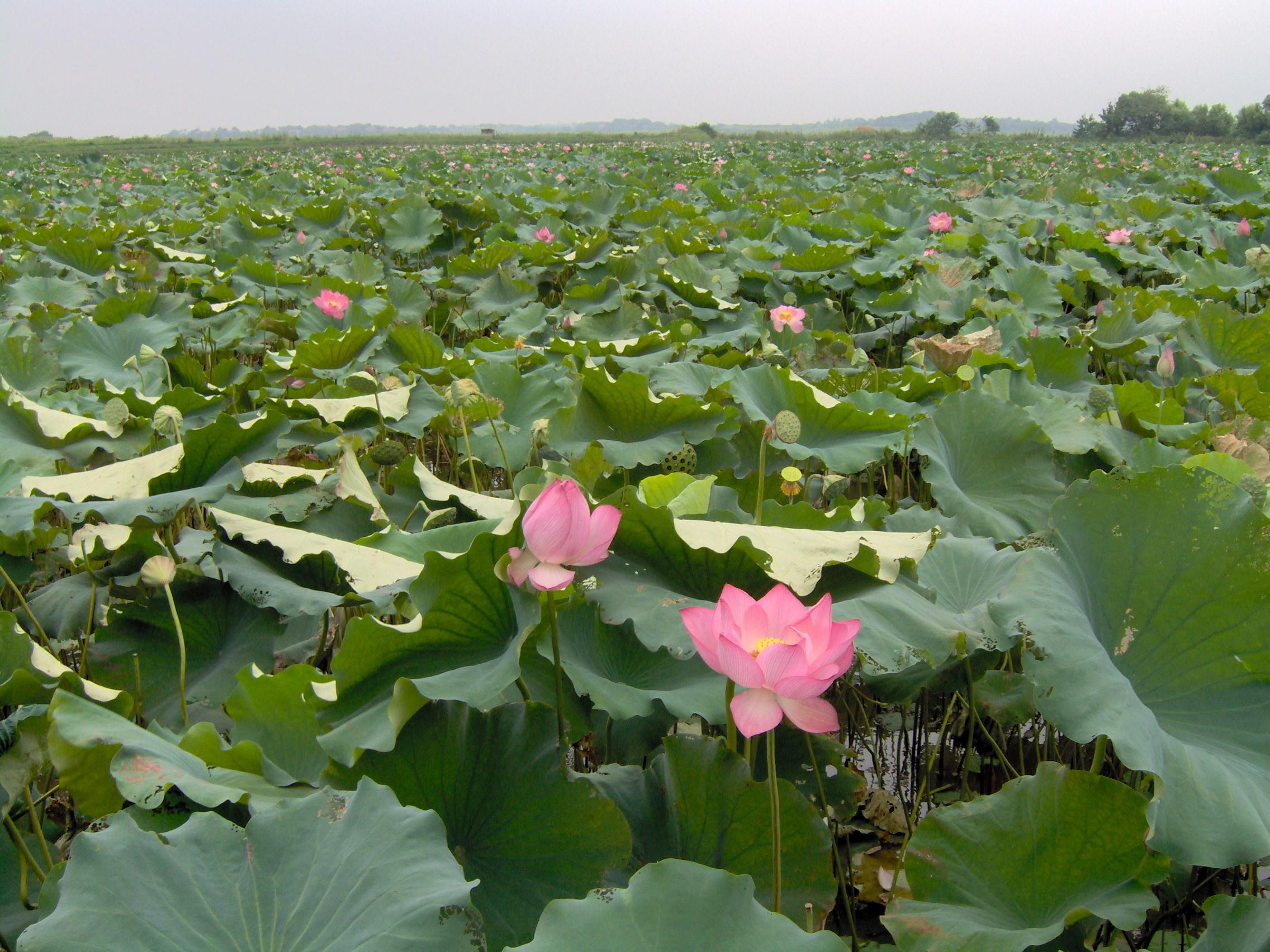 Lotus field in southern Hubei province, near Wuhan. Late summer.